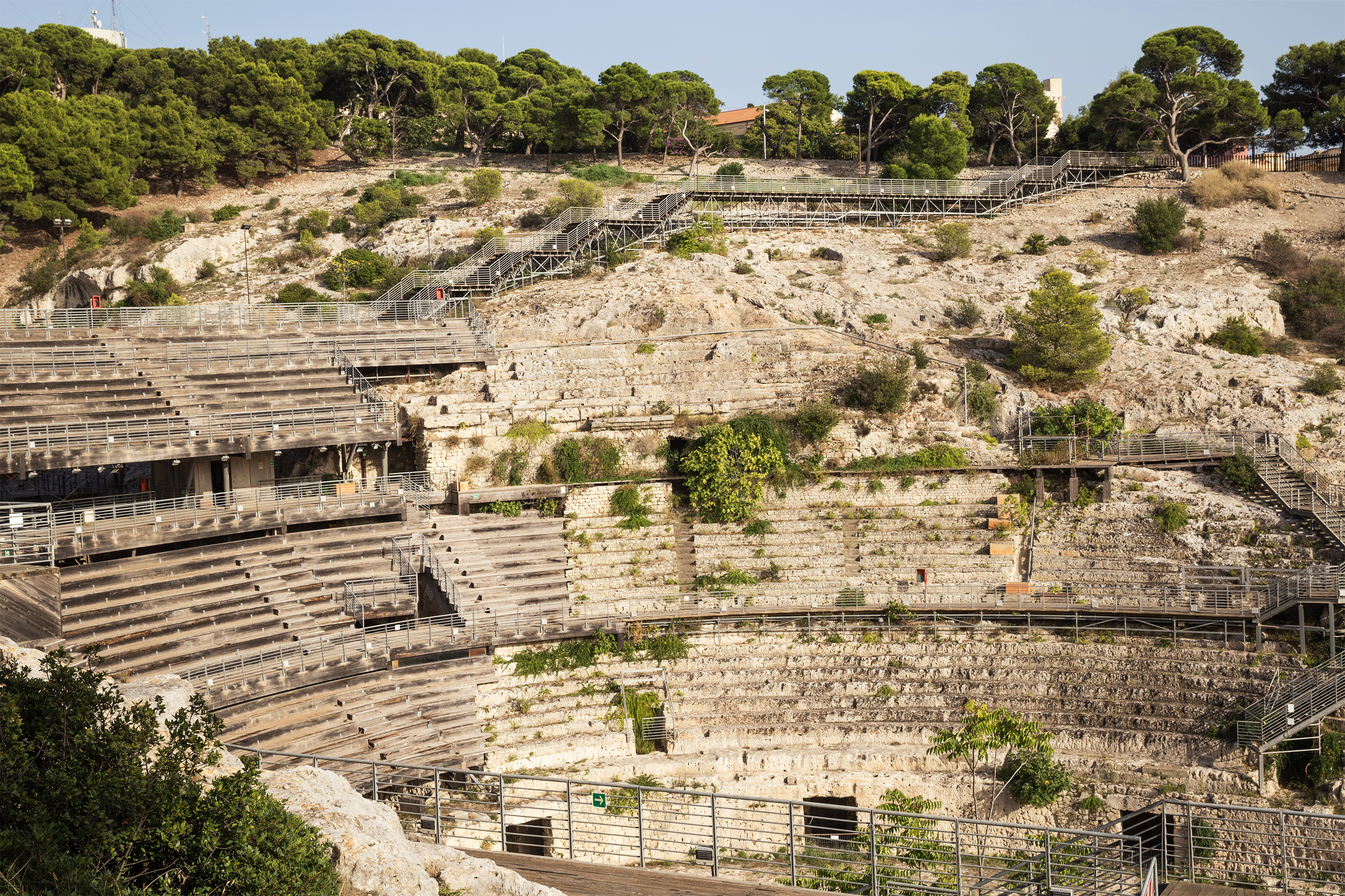 Cagliari, Roman Amphitheatre